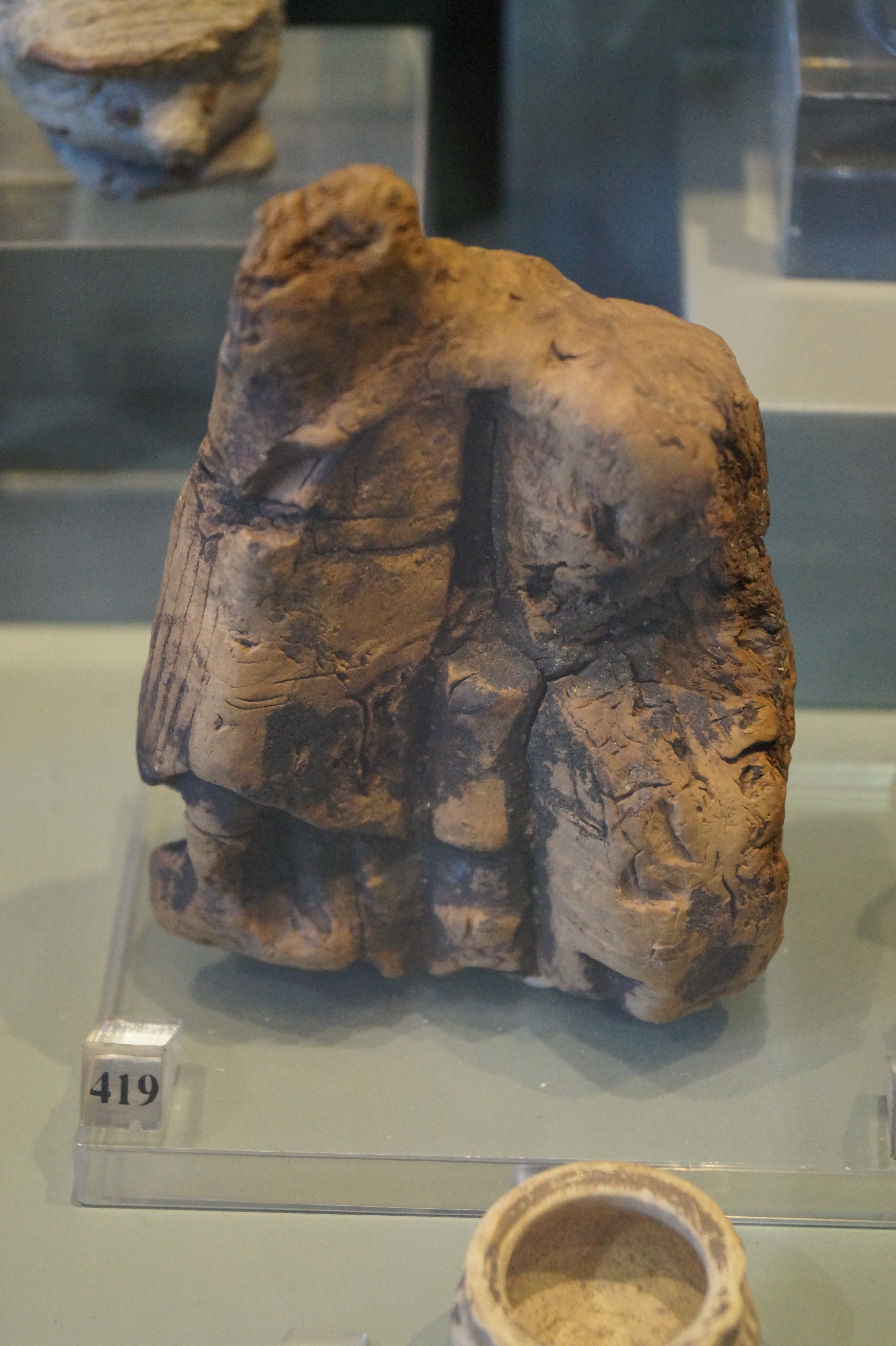 Sikyona, Peloponnese, Greece: Archaeological Museum of Sikyon, Finds from the Pitsa cave. Wooden figurine of a group of deities, probably Demeter and Kore. Second half of the 6th century BC. (MS 2455)